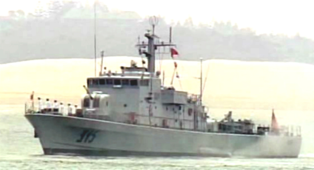 Vigilance Class: 315 - El Bachir - Royal Moroccan Navy